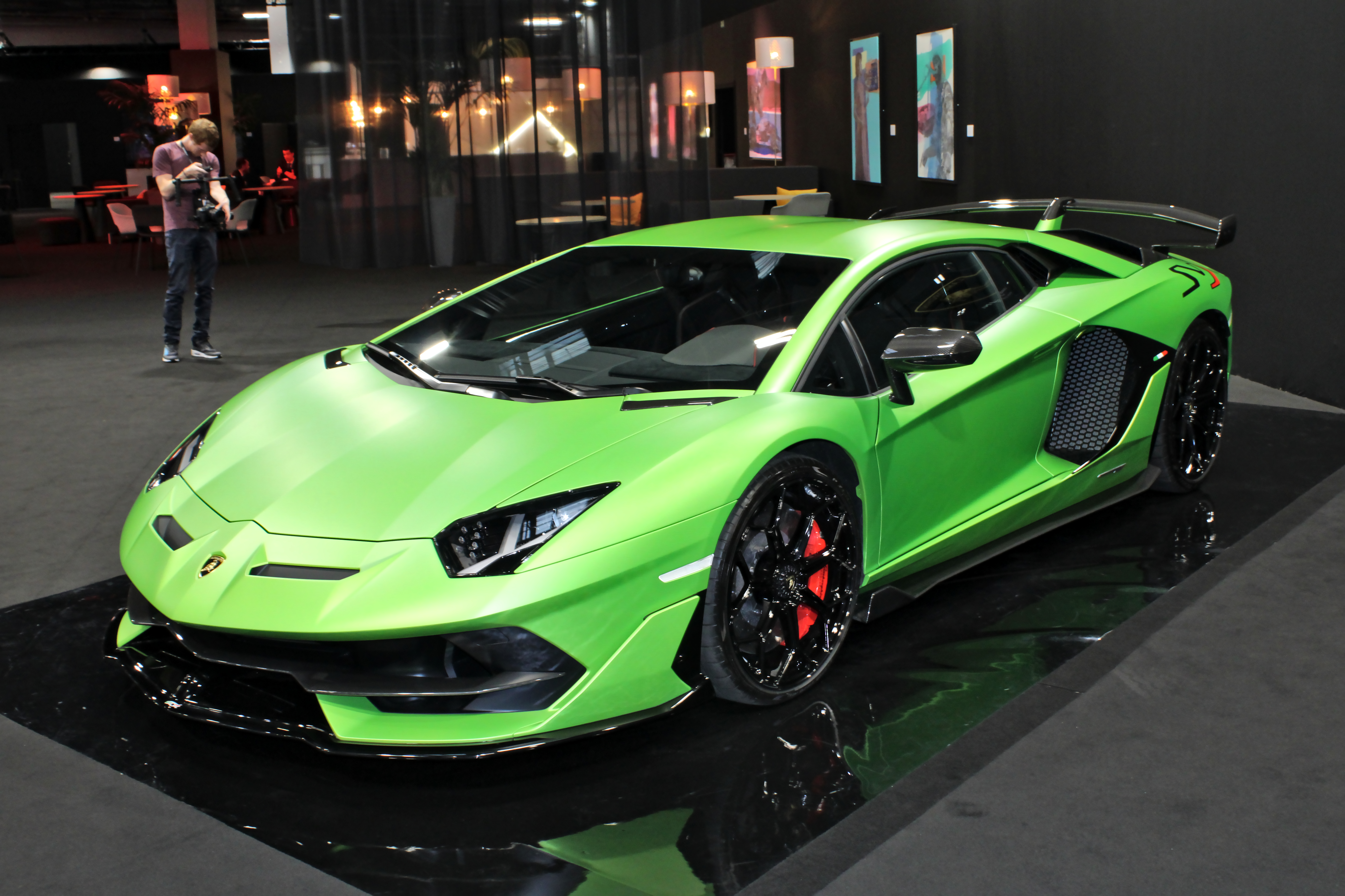 Lamborghini Aventador SVJ at Paris Motor Show 2018